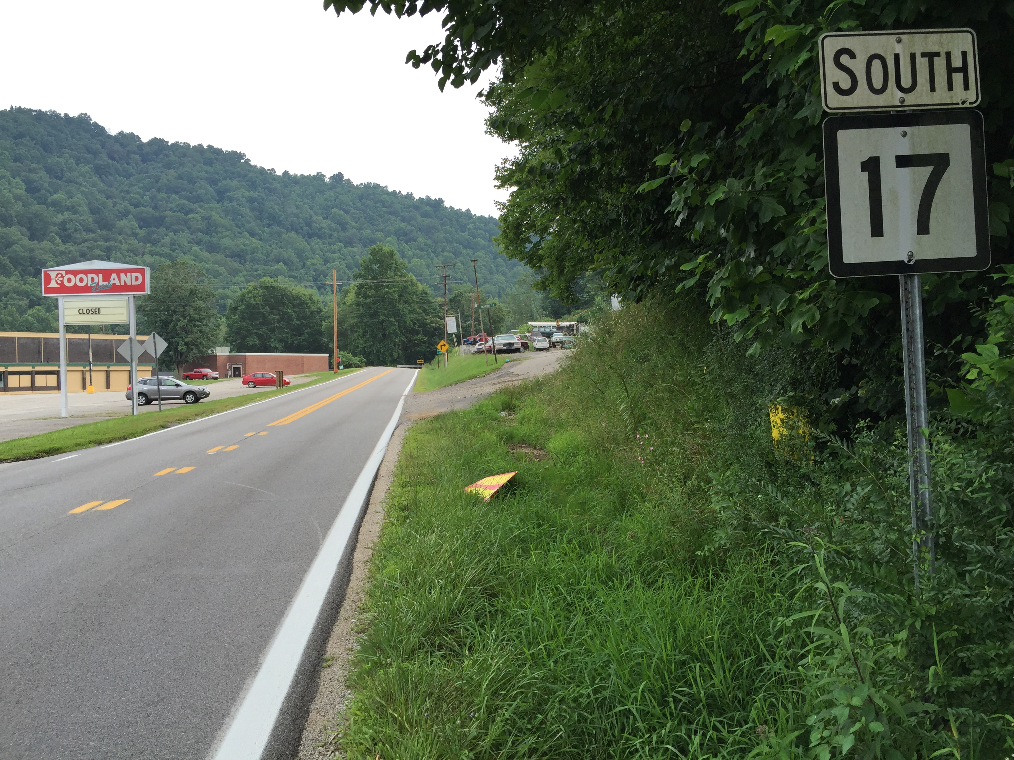 View south along West Virginia State Route 17 (Spruce River Road) at Veterans Memorial Bypass in Madison, Boone County, West Virginia